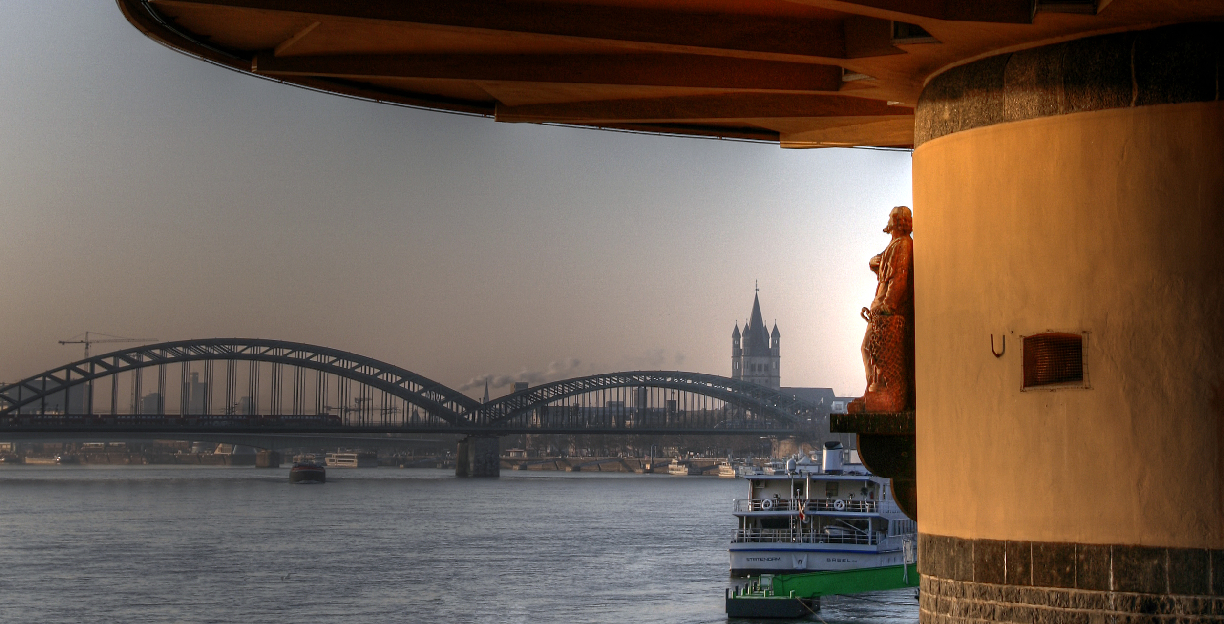 Restaurant Bastei, Cologne; build 1924 by Wilhelm Riphahn